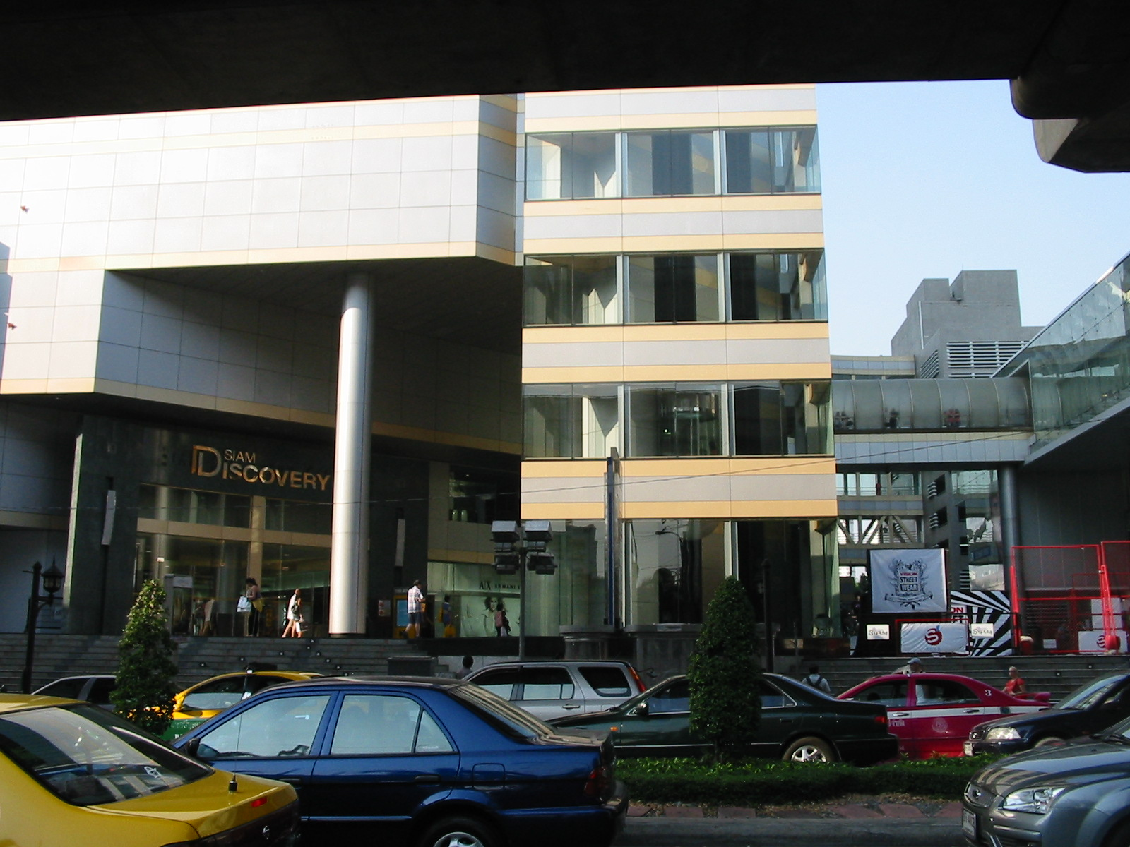 Siam Discovery Center,Bangkok, Thailand.